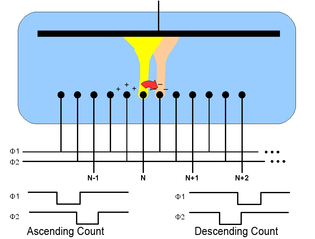 Glow transfer of dekatron